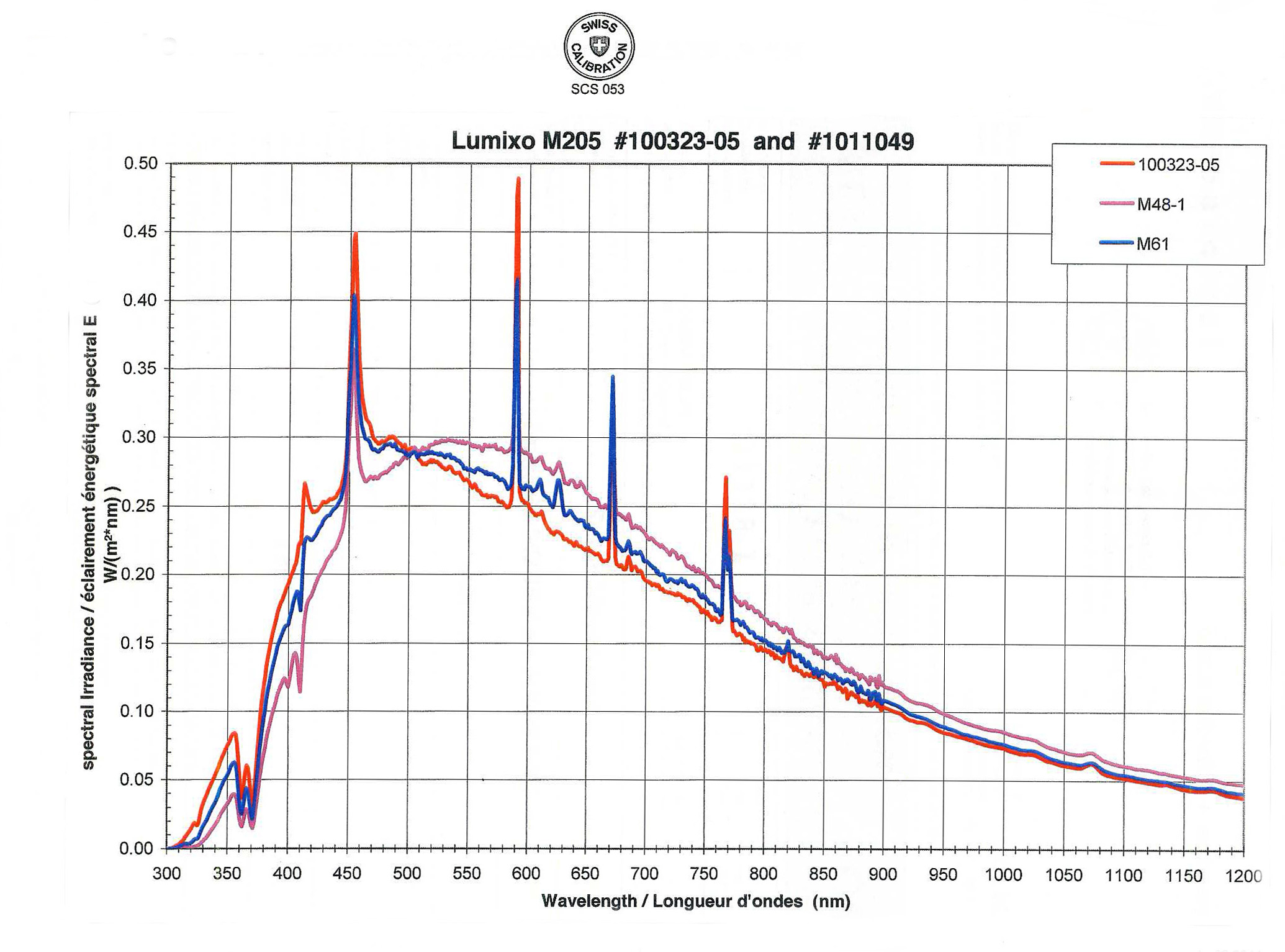 Plasma lamp spectrum - Solar simulation